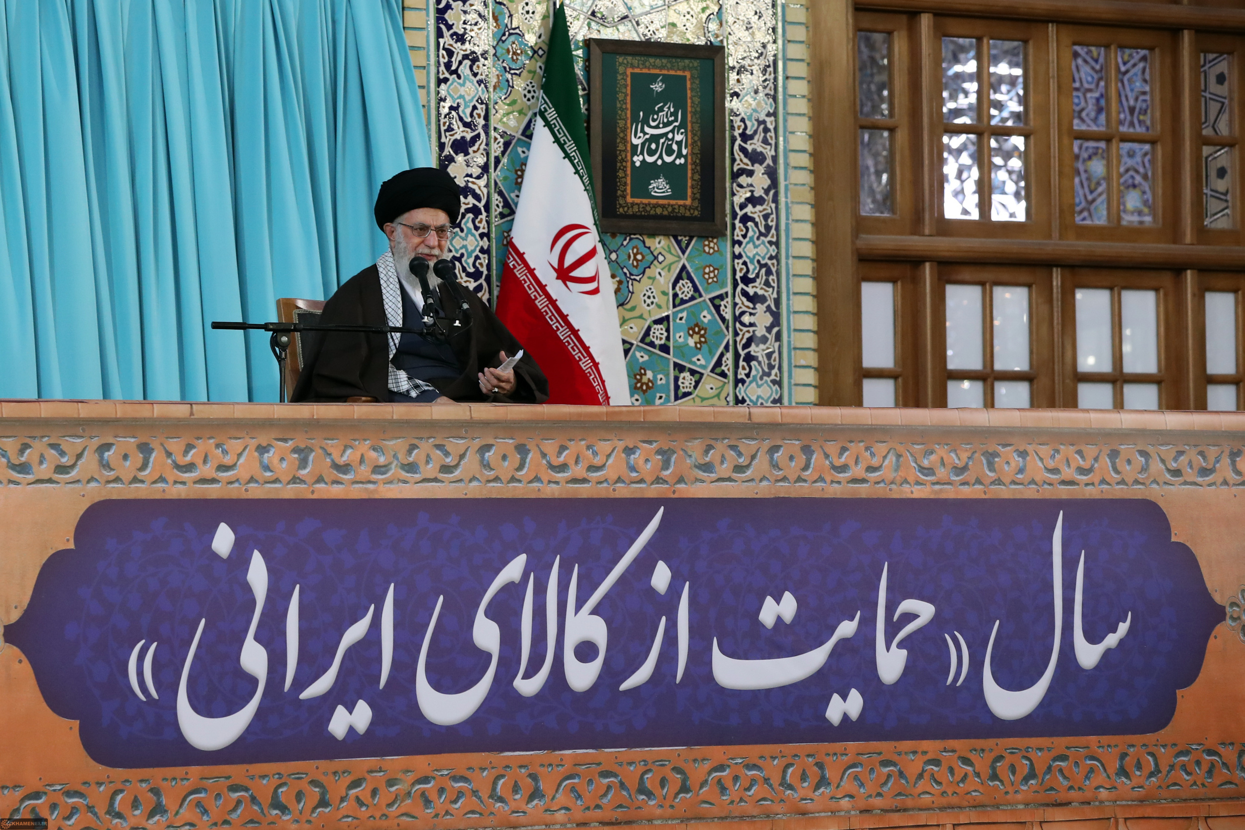 Ali Khamenei's speech on the first day of 1397 in Imam Reza Shrine